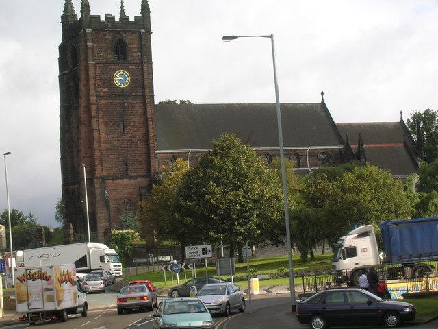 St Giles' Church Street Newcastle-under-Lyme Photograph taken by student at CEDARS unit, Orme Building, Newcastle-under-Lyme Year 8 boy.